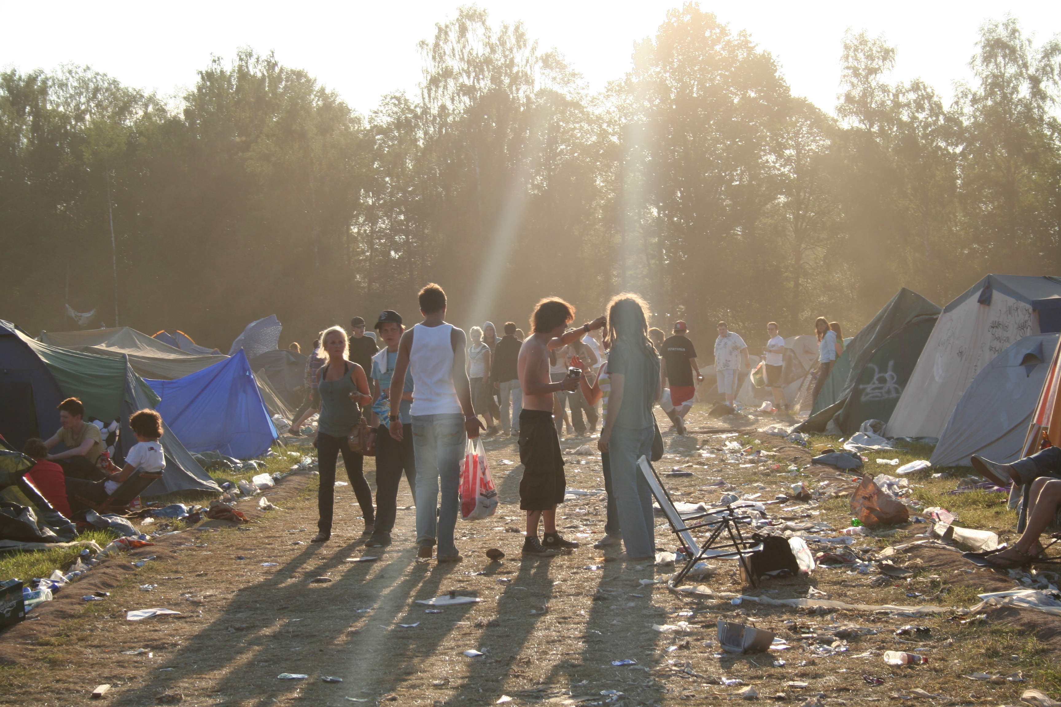 The camping at Hultsfred Festival.